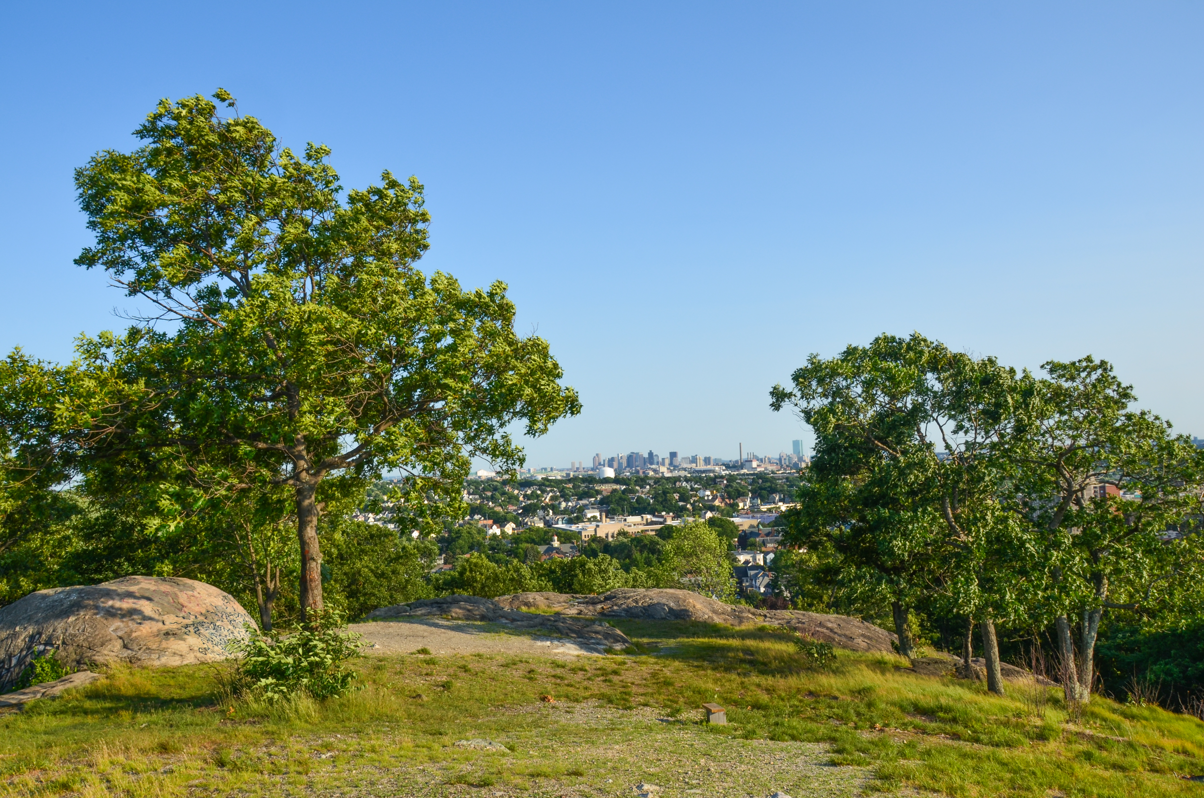 A Leisurely Stroll Through the Waitt's Park on Waitt's Mountain